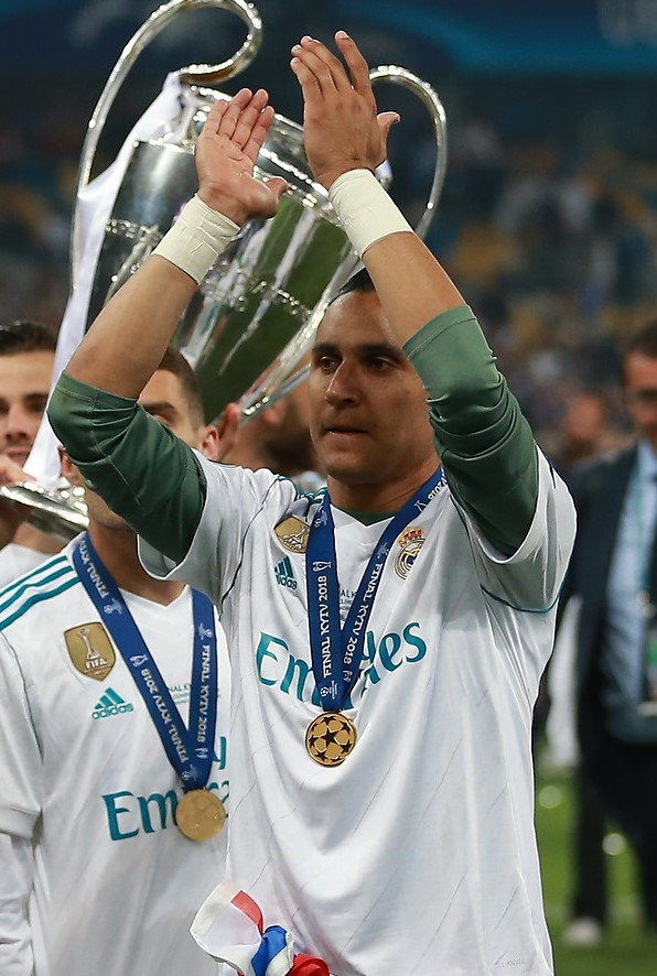 Keylor Navas